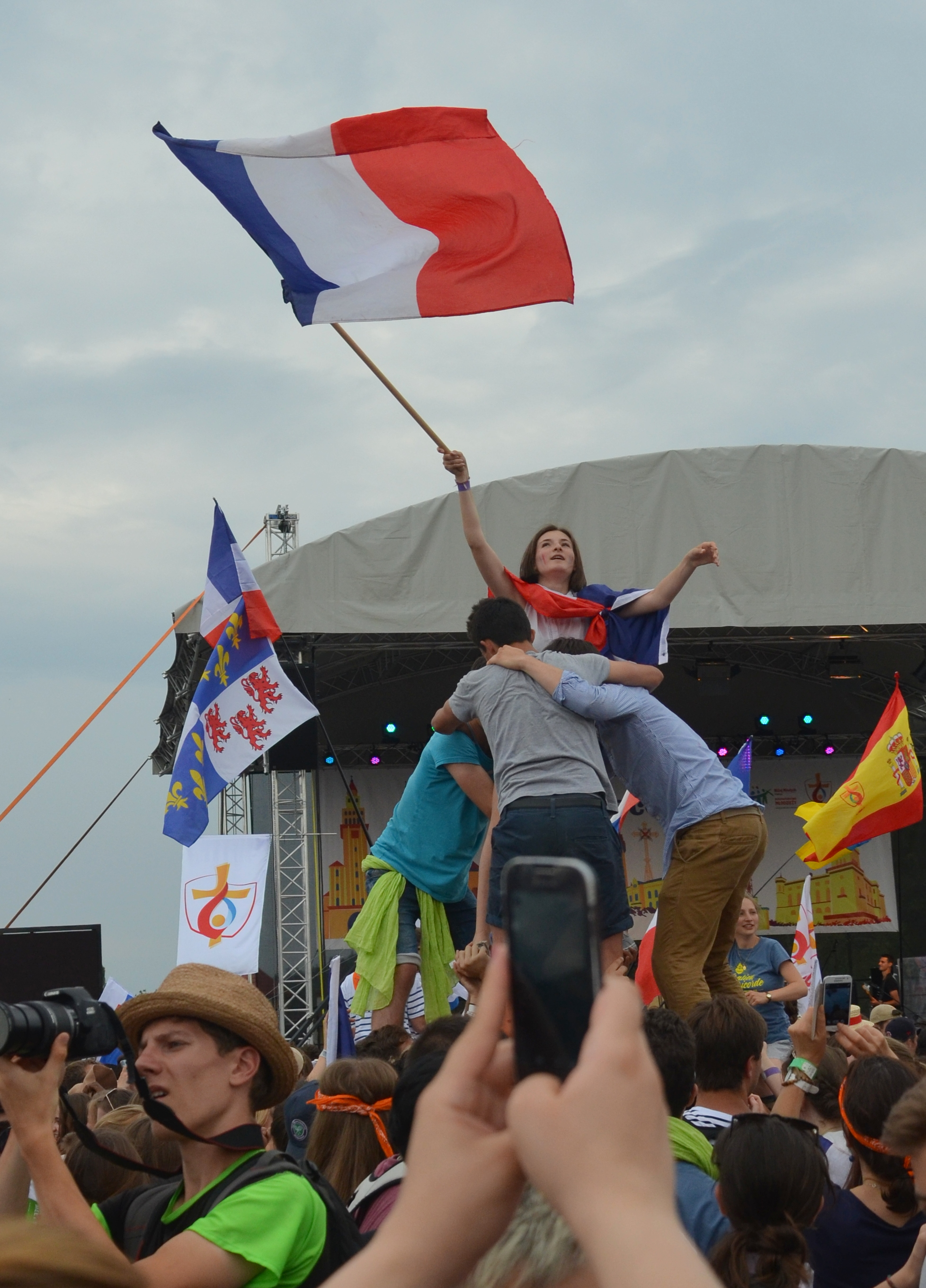 Weltjugendtag 2016 im Bistum Bielitz-Saybusch